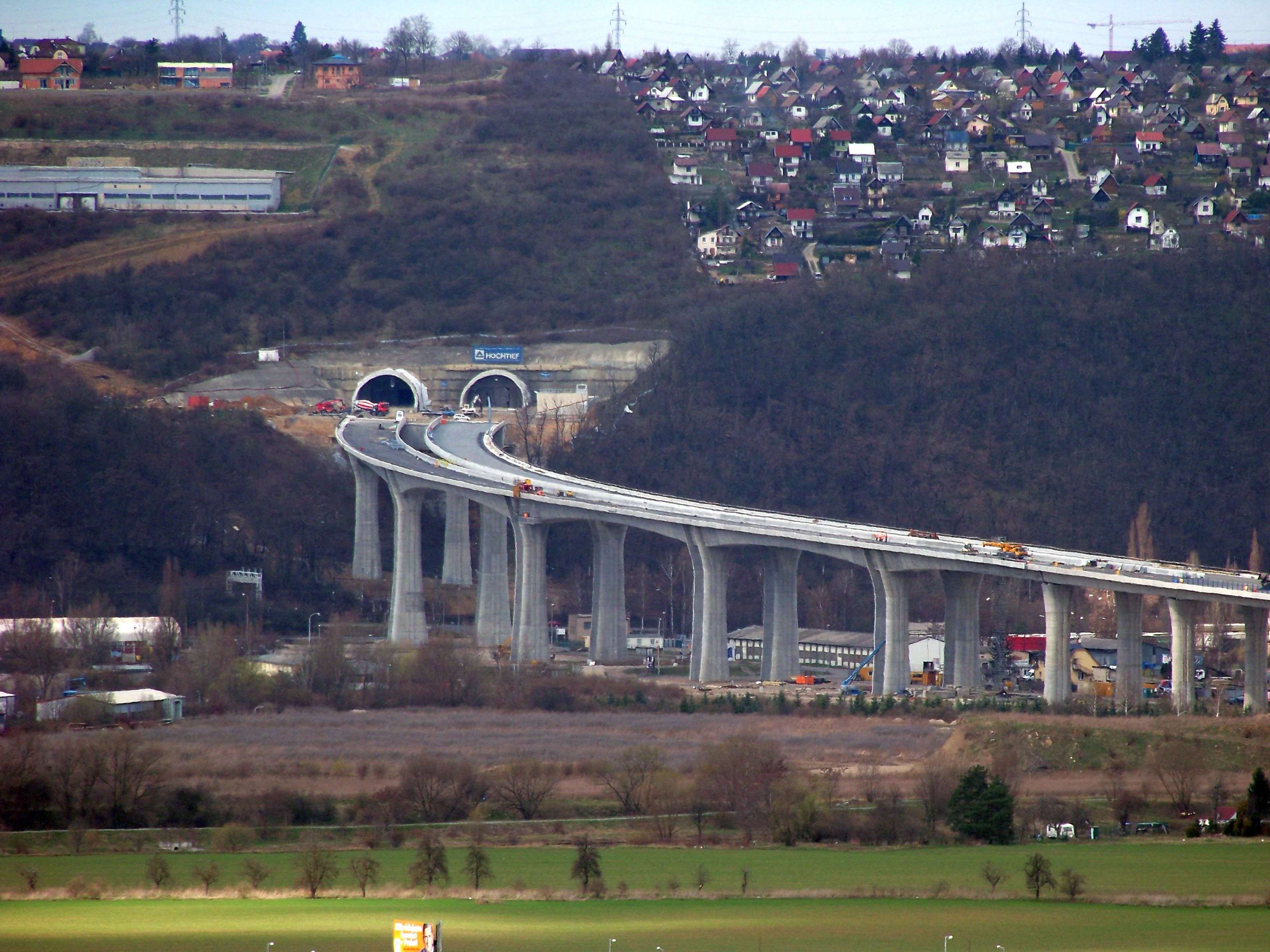 Radotín, Prague, the Czech Republic. Construction of Expressway R1. - Google Maps - Google Earth